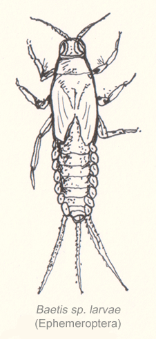 Ephemeridae - Baetis sp. - larva